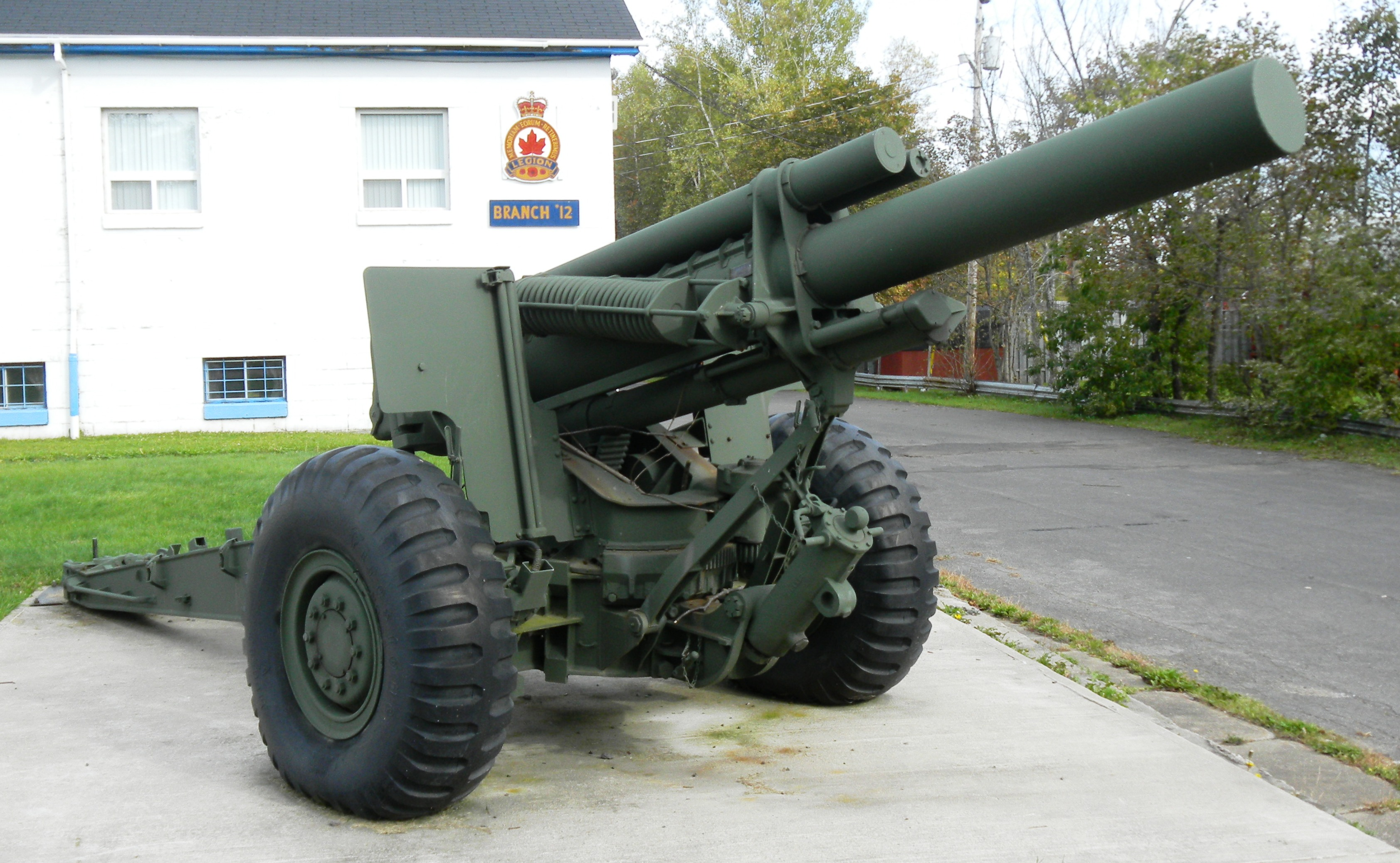 155-mm Howitzer M1A1 Cdn on Carriage M1A2 Cdn (manufactured by Sorel Industries Limited, Quebec), aka M114 Cdn, Royal Canadian Legion, Minto, New Brunswick.